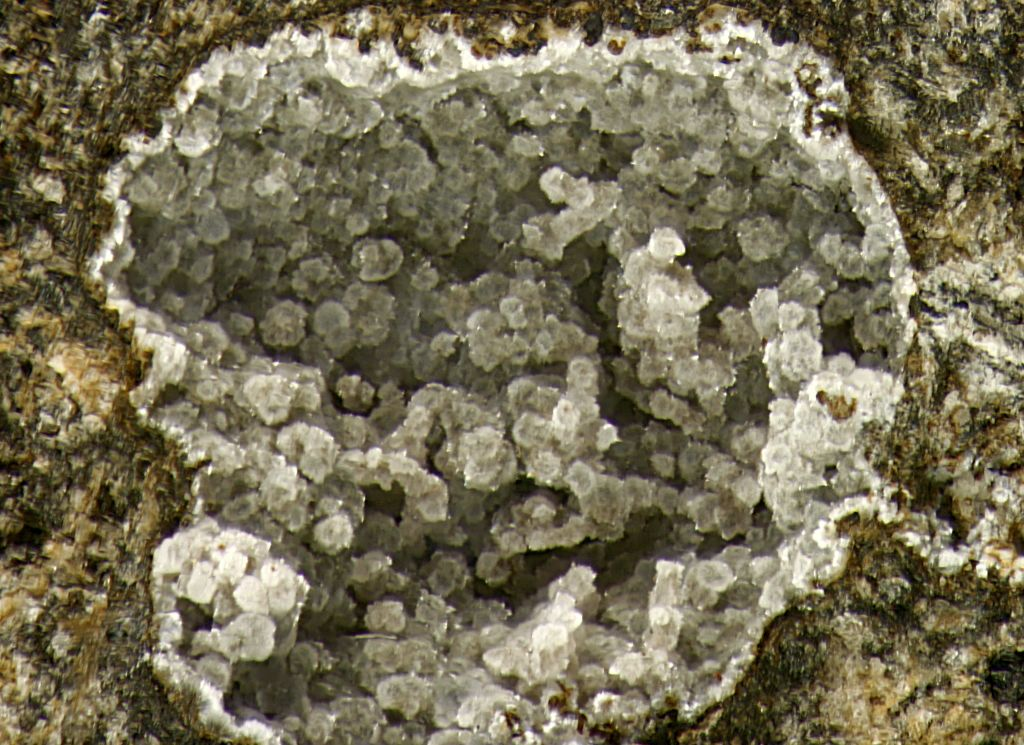 Cowlesite FOV: 5.9 x 4.3 mm Locality: Four Mile Quarry, Porter, Grays Harbor Co., Washington, USA Description: Thanks to Ralph Thomas. MOB coll